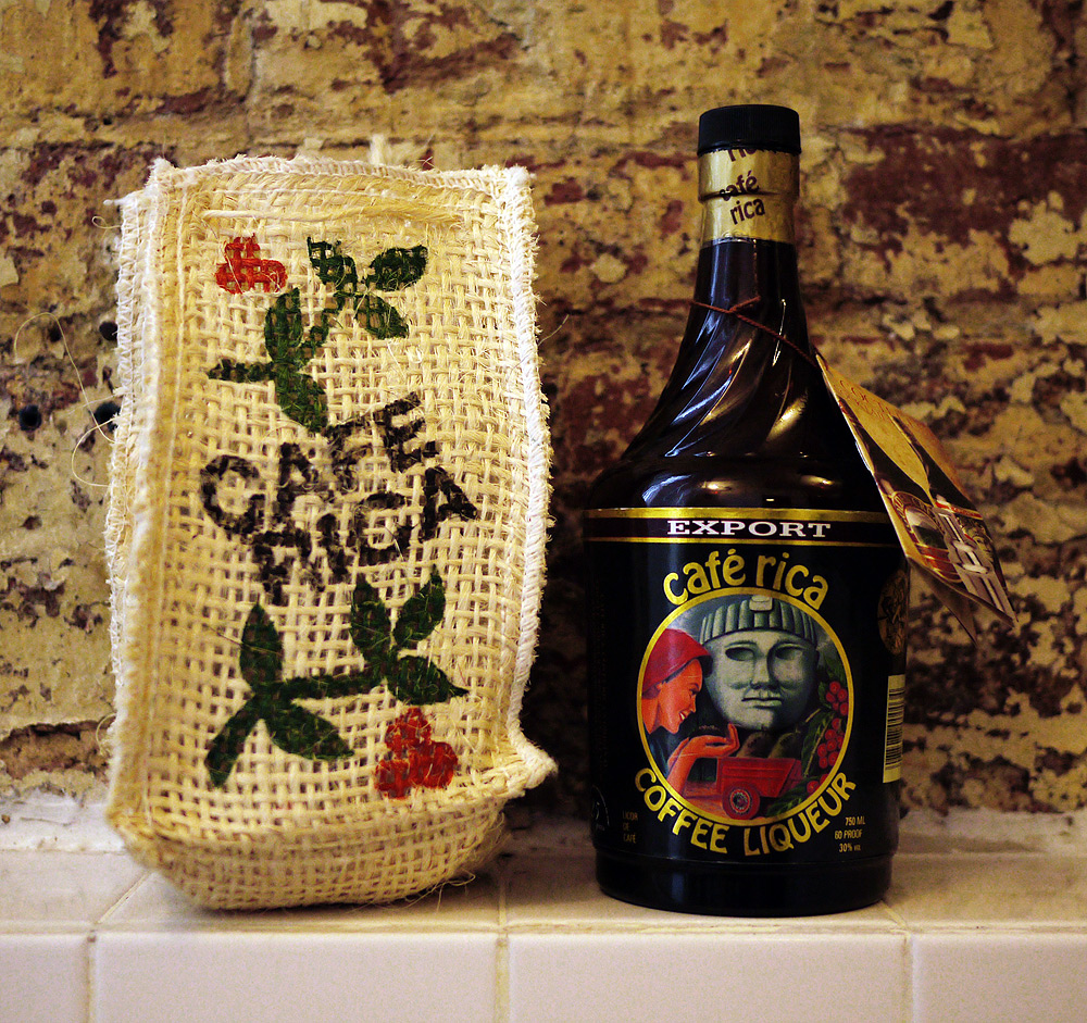 A bottle of Cafe Rica, Costa Rican coffee liqueur and the woven bag it comes in.